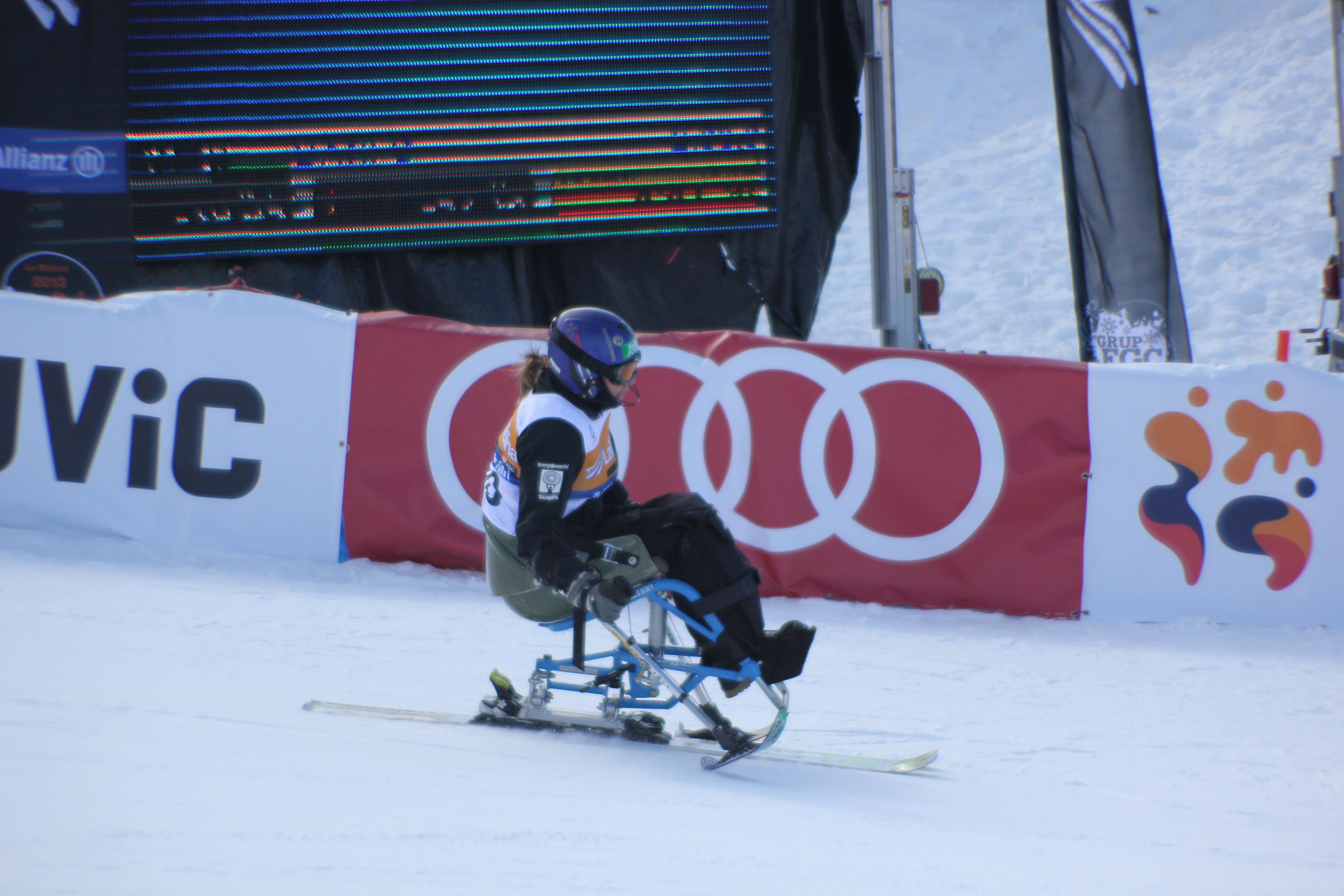 Women's GS event at the 2013 IPC Alpine World Championships.